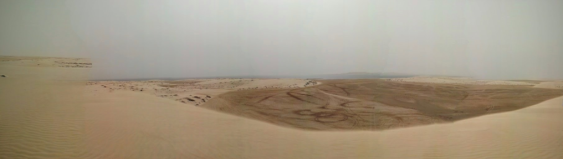 The desert in Doha where sound is absorbed the overwhelming silence is emphasized only by the peace of mind it can generate